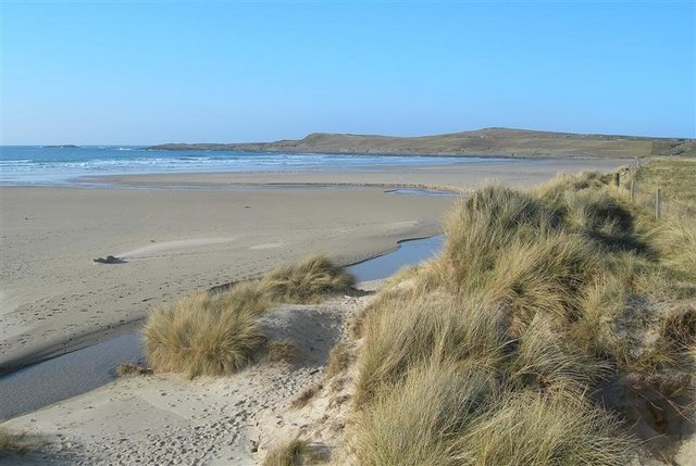 Machir Bay Looking towards the northern end of the bay on a beautiful February afternoon.